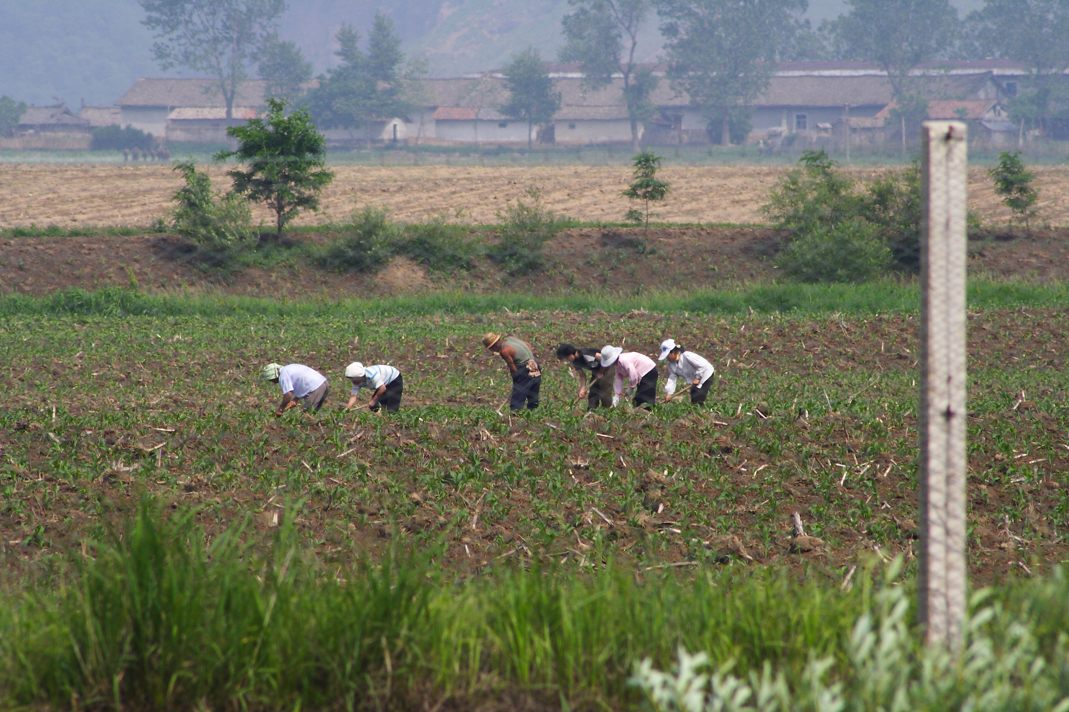 North Korean farmers Hushan Changcheng China, 2009-06-14